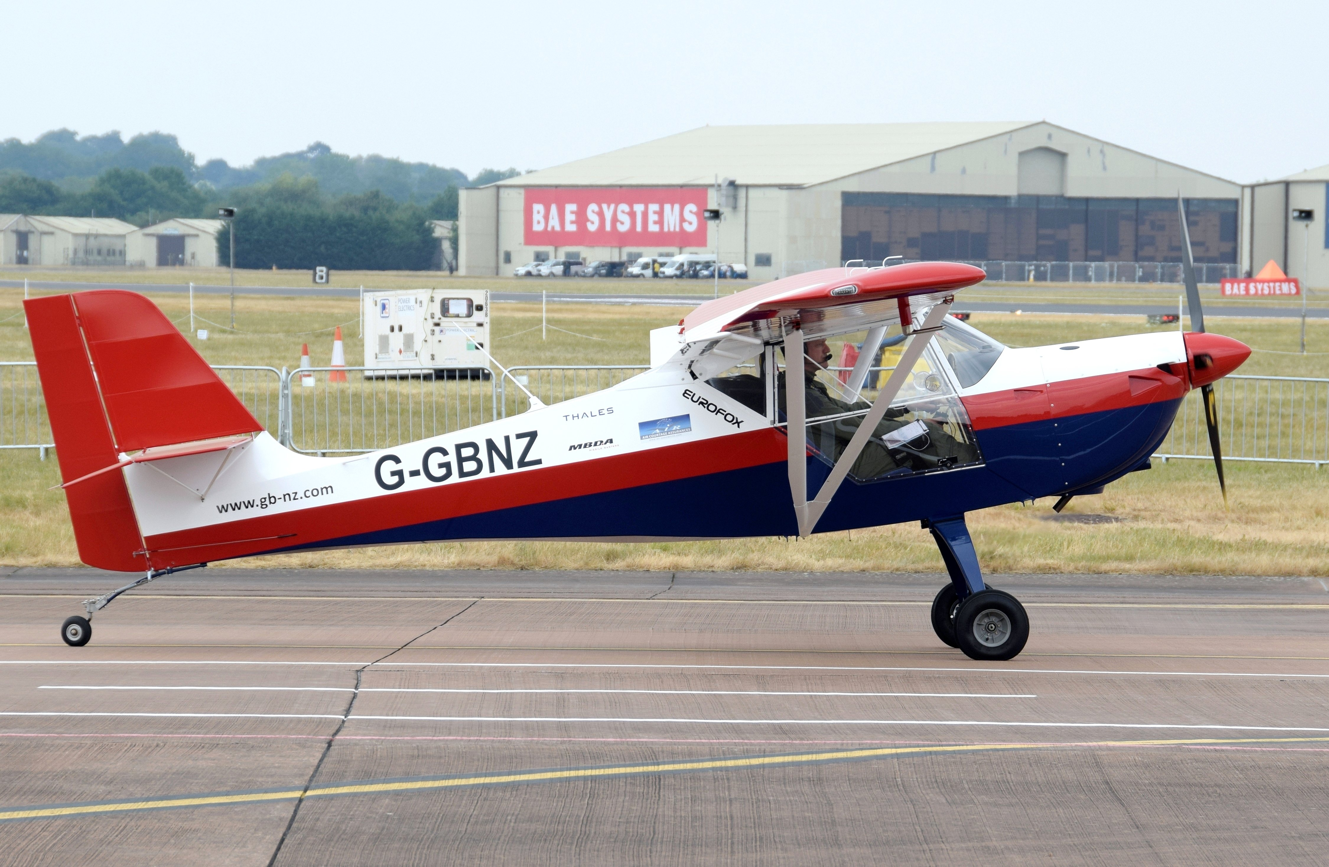 Aeropro Eurofox 912(iS) (G-GBNZ) departs the 2018 Royal International Air Tattoo, RAF Fairford, England. A team is planning to fly this aircraft 13,000 miles from Great Britain to New Zealand to celebrate the 100th anniversary of the formation of the Royal Air Force. The flight will start in 2018 from RAF Cranwell and finish at RNZAF Whenuapai. “The 13,000 miles will be flown at 100mph, powered by 100hp, celebrating 100 years and visiting 28 locations, all bar two of which have significant RAF connections,” said Sqn Ldr Chris Pote, team leader of the RAF 100 Great Britain to New Zealand expedition. He will captain the Eurofox with six other members of the team sharing sections of the flight.